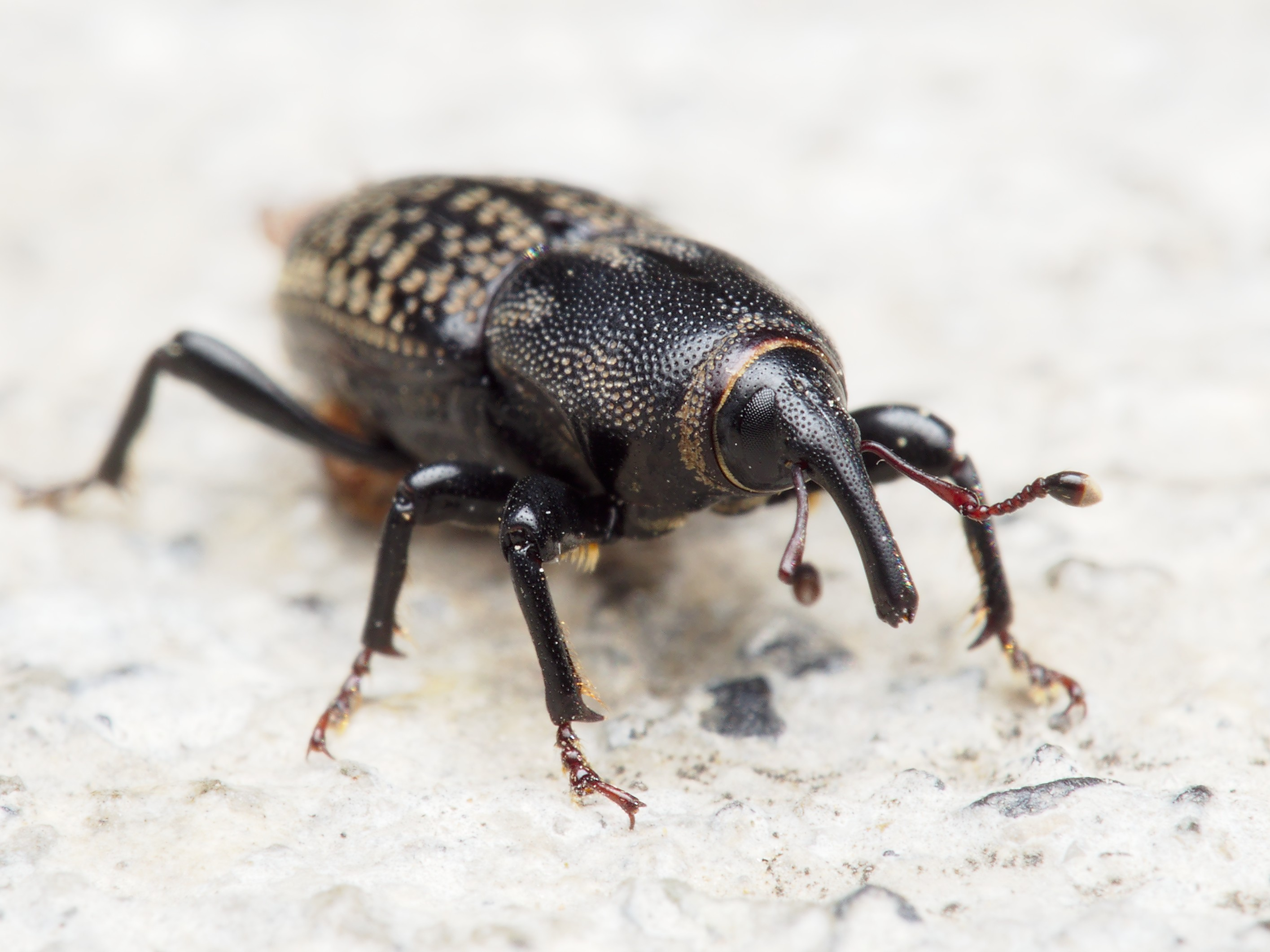 Sphenophorus cicatristriatus, the Rocky Mountain Billbug, playing host to several mites in Richland, Washington